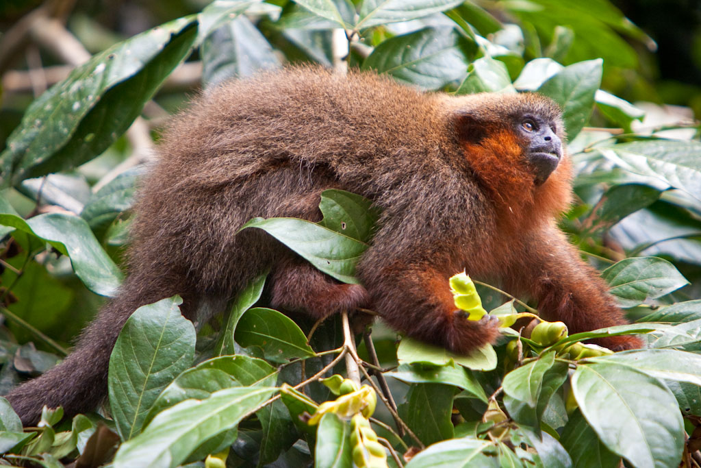 Toppin’s titi (Callicebus toppini) near Tambopata Research Center.